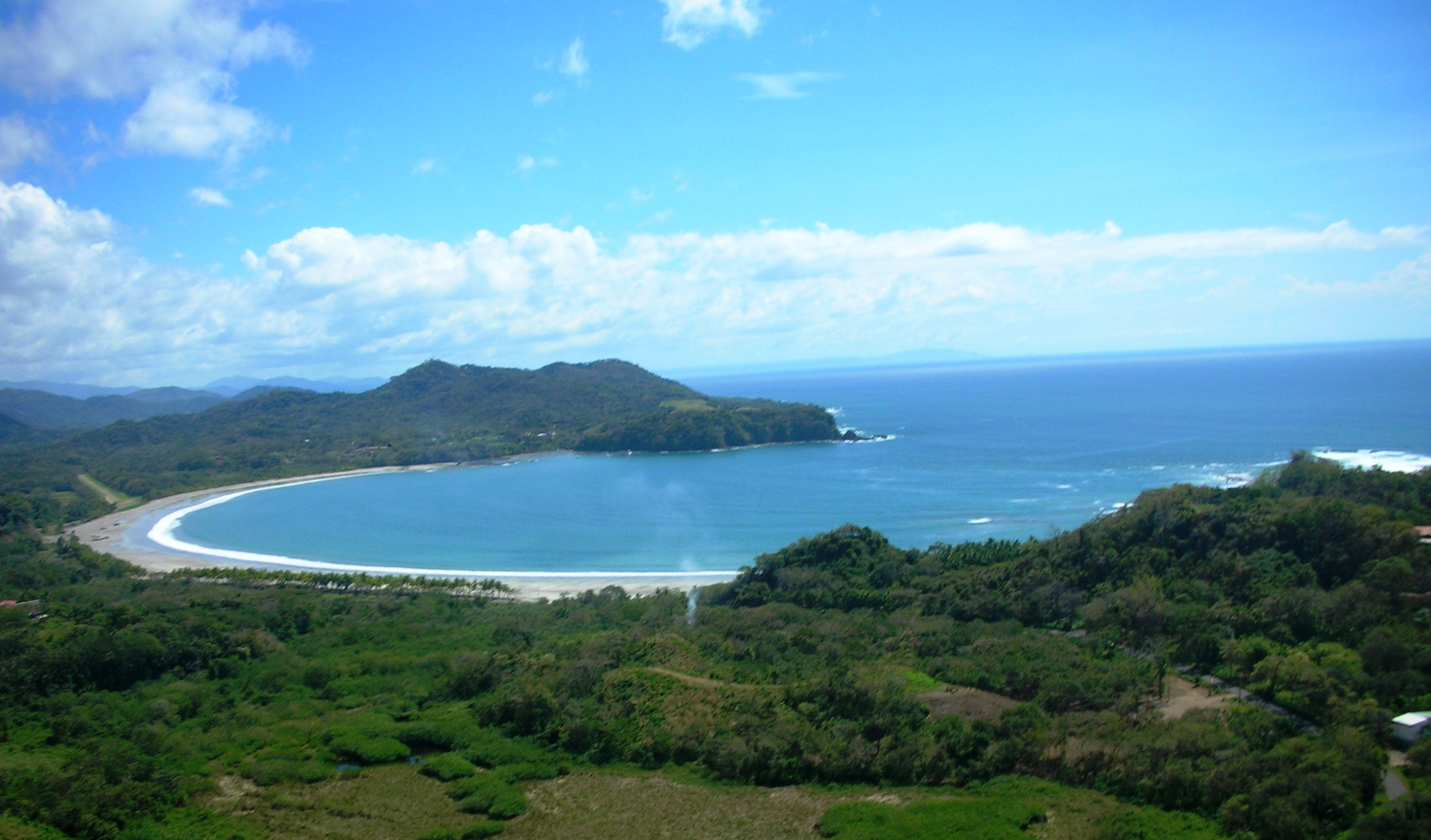 Foto Aerea de Carrillo